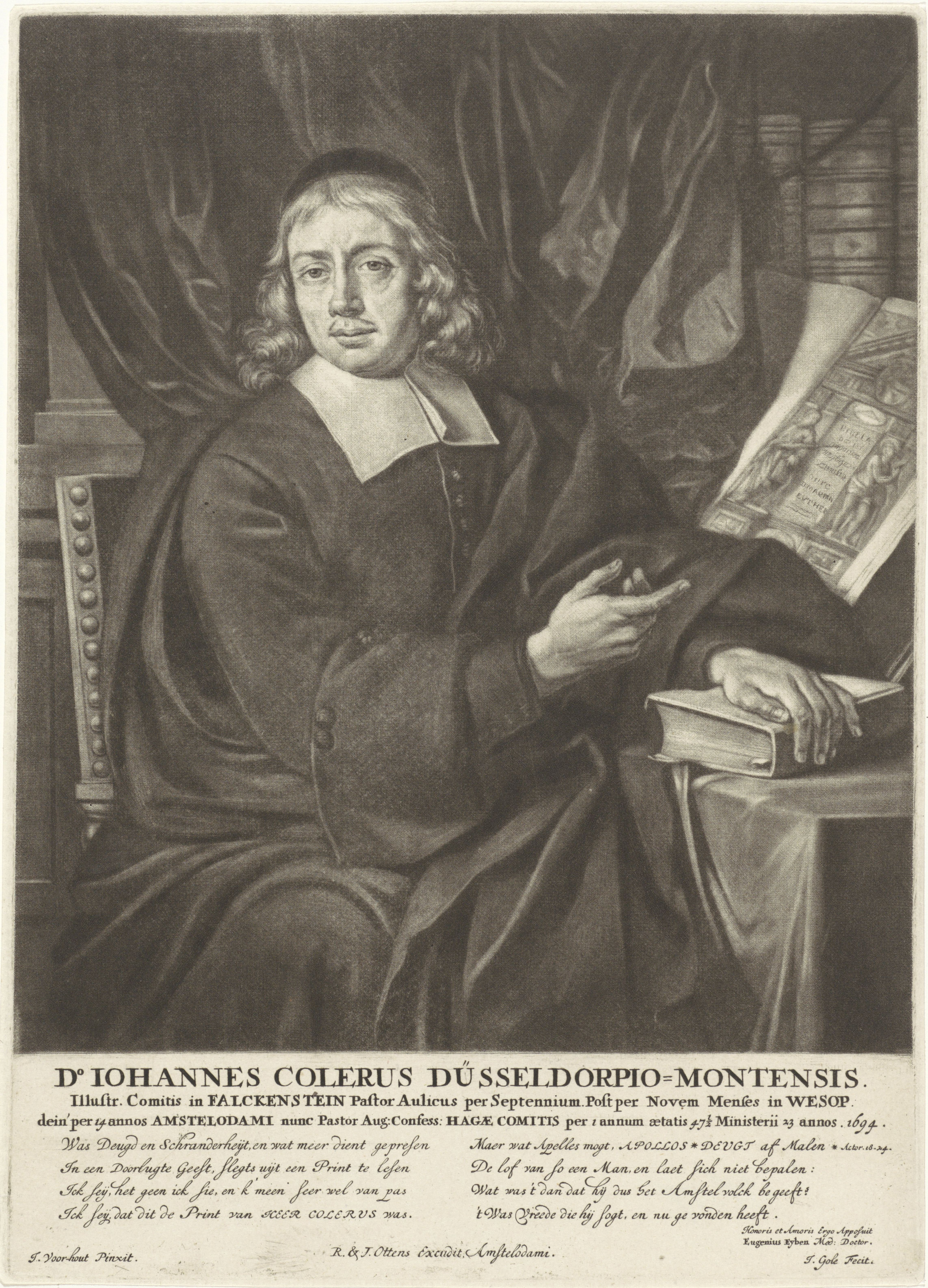 The writer and theologian Johannes Colerus sitting at a table and pointing at a book. In the margins are his name, titles and a praise to his work. Study room with library. Jacob Gole, Reinier Ottens (I) & Josua Ottens and Eugenius Eyben are mentioned on the object.